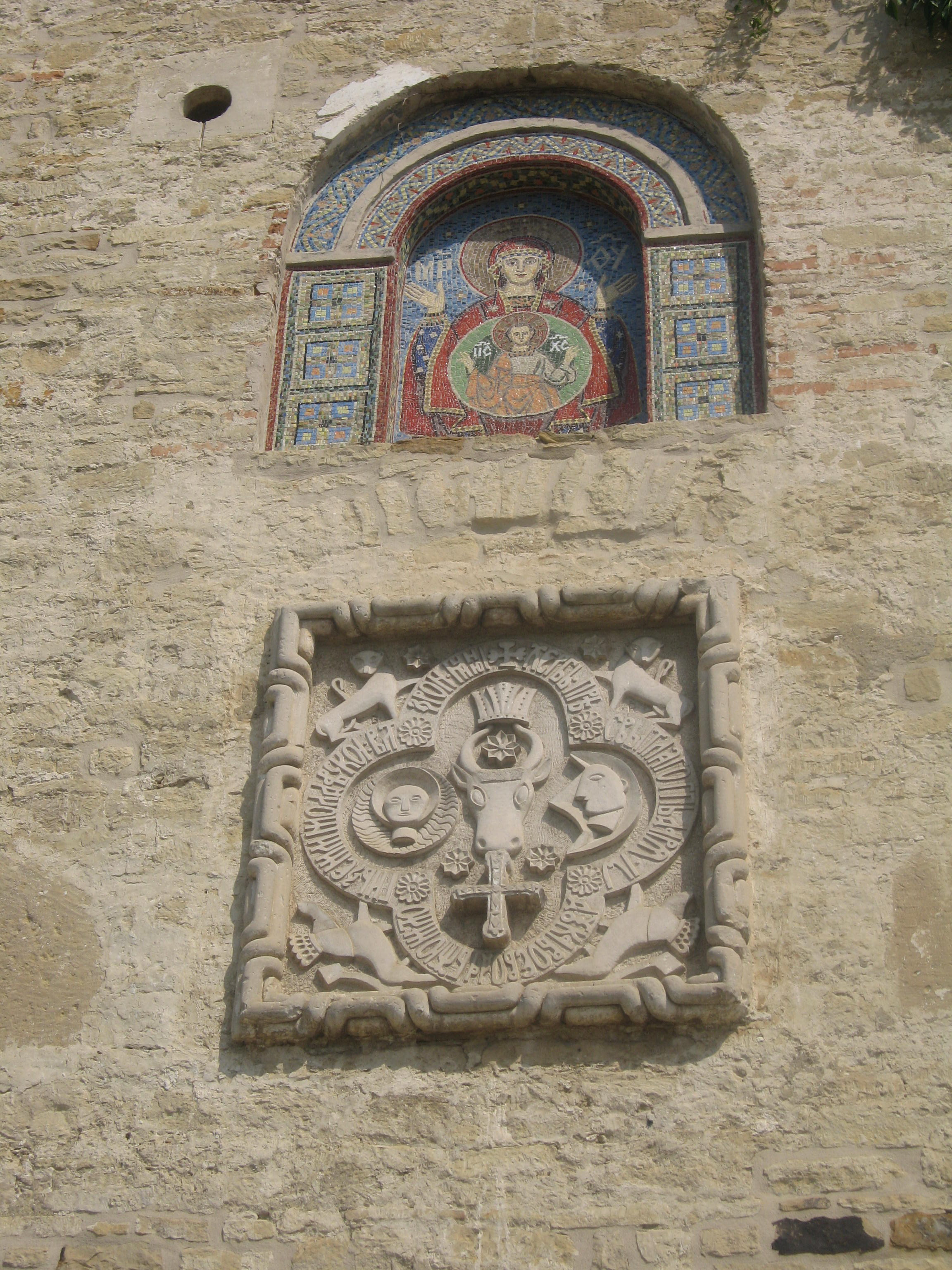 Mănăstirea Cetăţuia